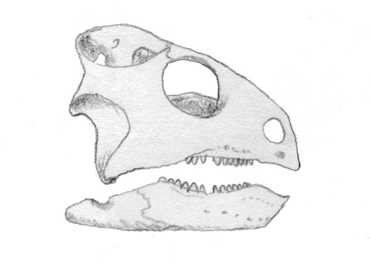 Skull of Trilophosaurus, an early archosauromorph